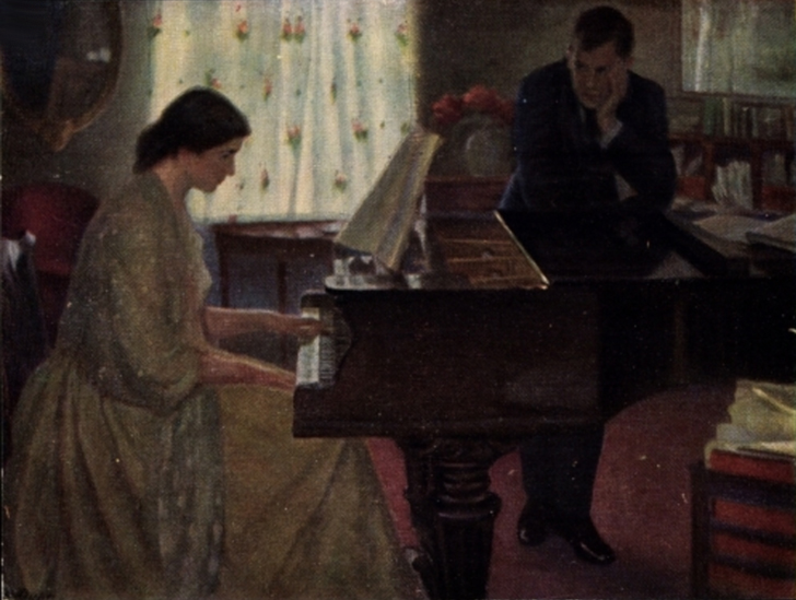 "Präludium" by Ernst Oppler